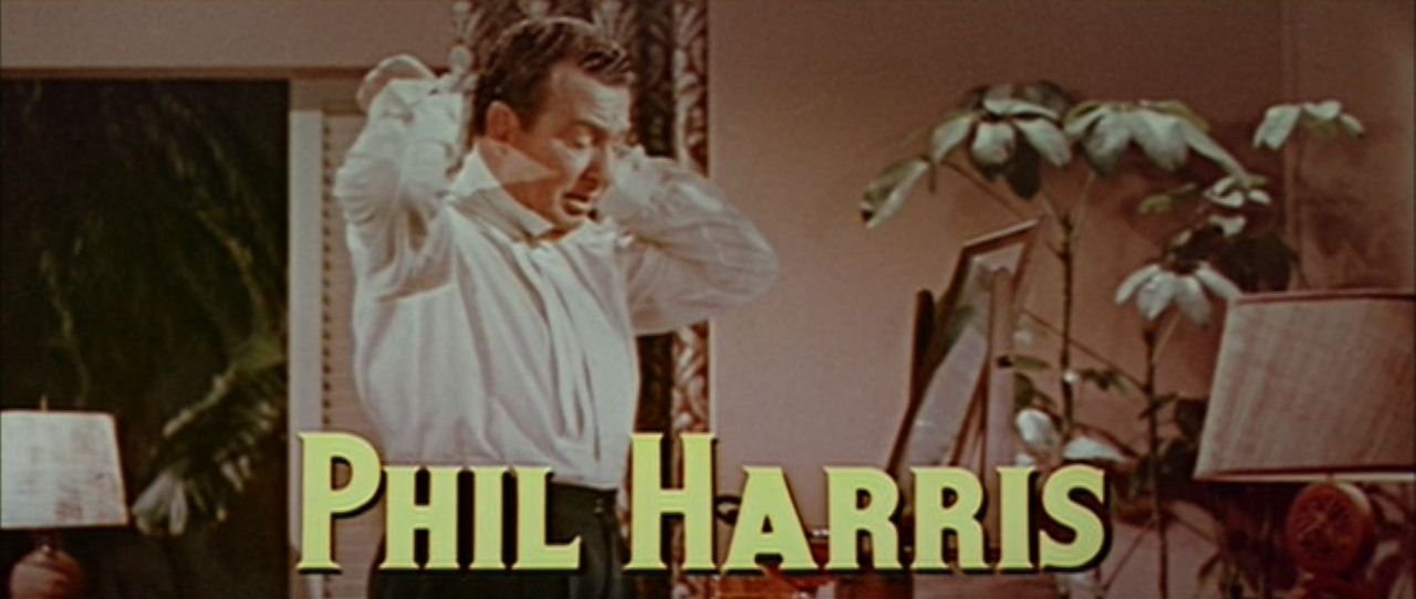 Screenshot showing Phil Harris from the film The High and the Mighty.